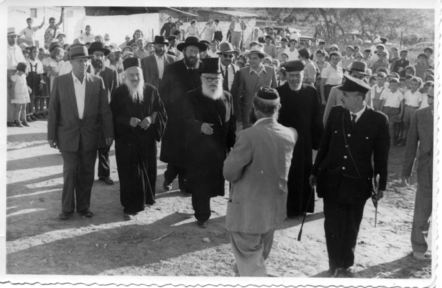 Chief rabbis visit Ashkelon , People of Israel